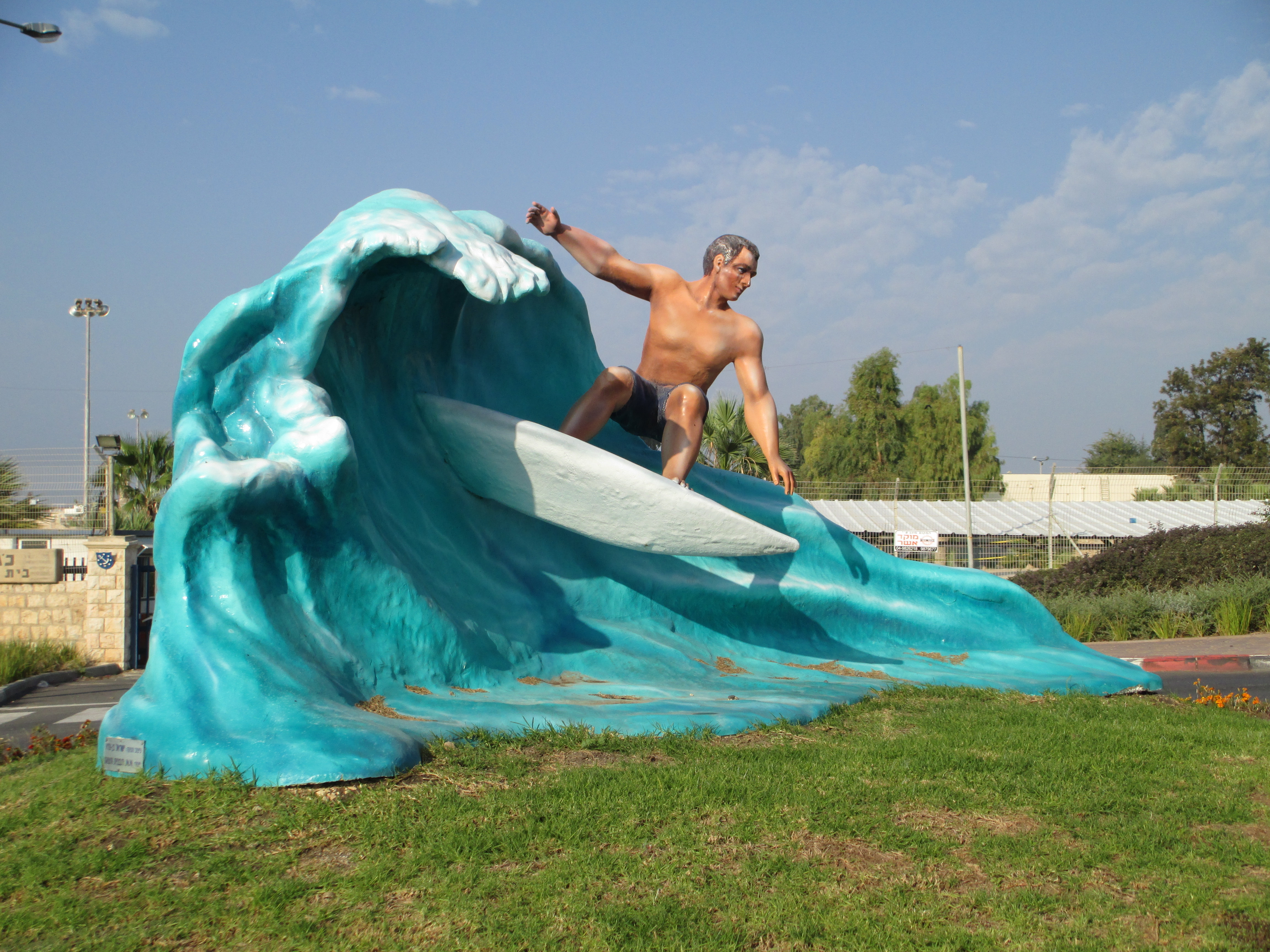 Navy School in Acre